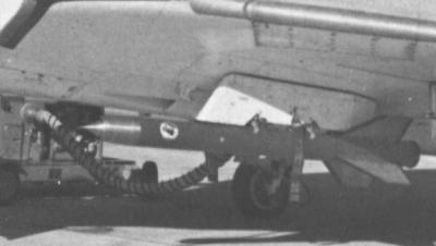 CROW (Creative Research On Weapons) ballistic test vehicle mounted on Douglas F4D Skyray launch aircraft.